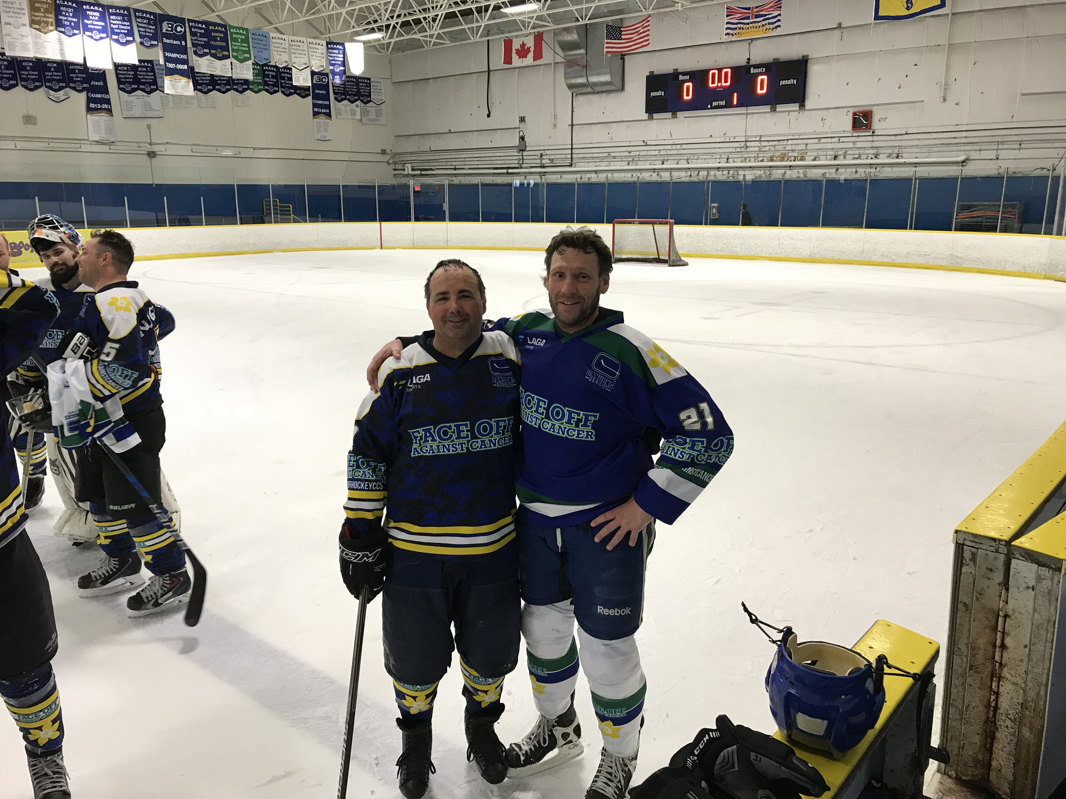 Jyrki Lumme supporting hockey event for Canadian Cancer Society